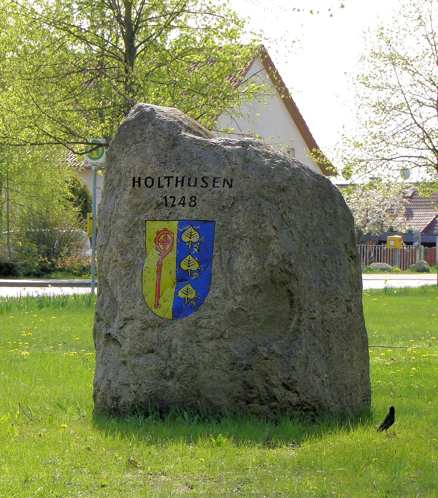 Stone with coat of arms in Holthusen, district Ludwigslust-Parchim, Mecklenburg-Vorpommern, Germany